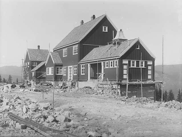 Hjuksebø railway station on Sørlandsbanen, in Sauherad, Norway